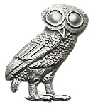 Owl of Ishtar (cut off an old coin)